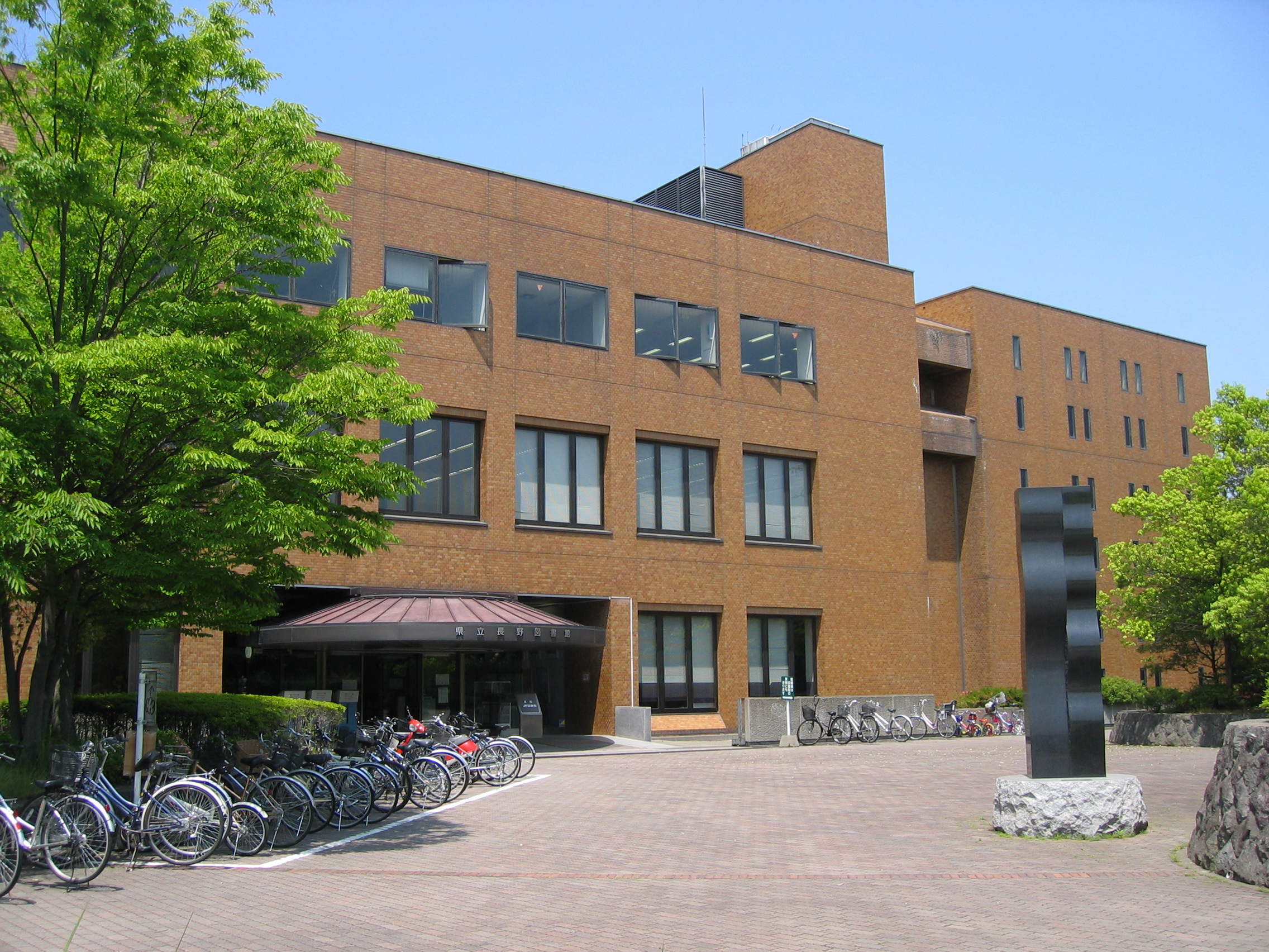 Nagano Prefectural Library (Nagano, Nagano).